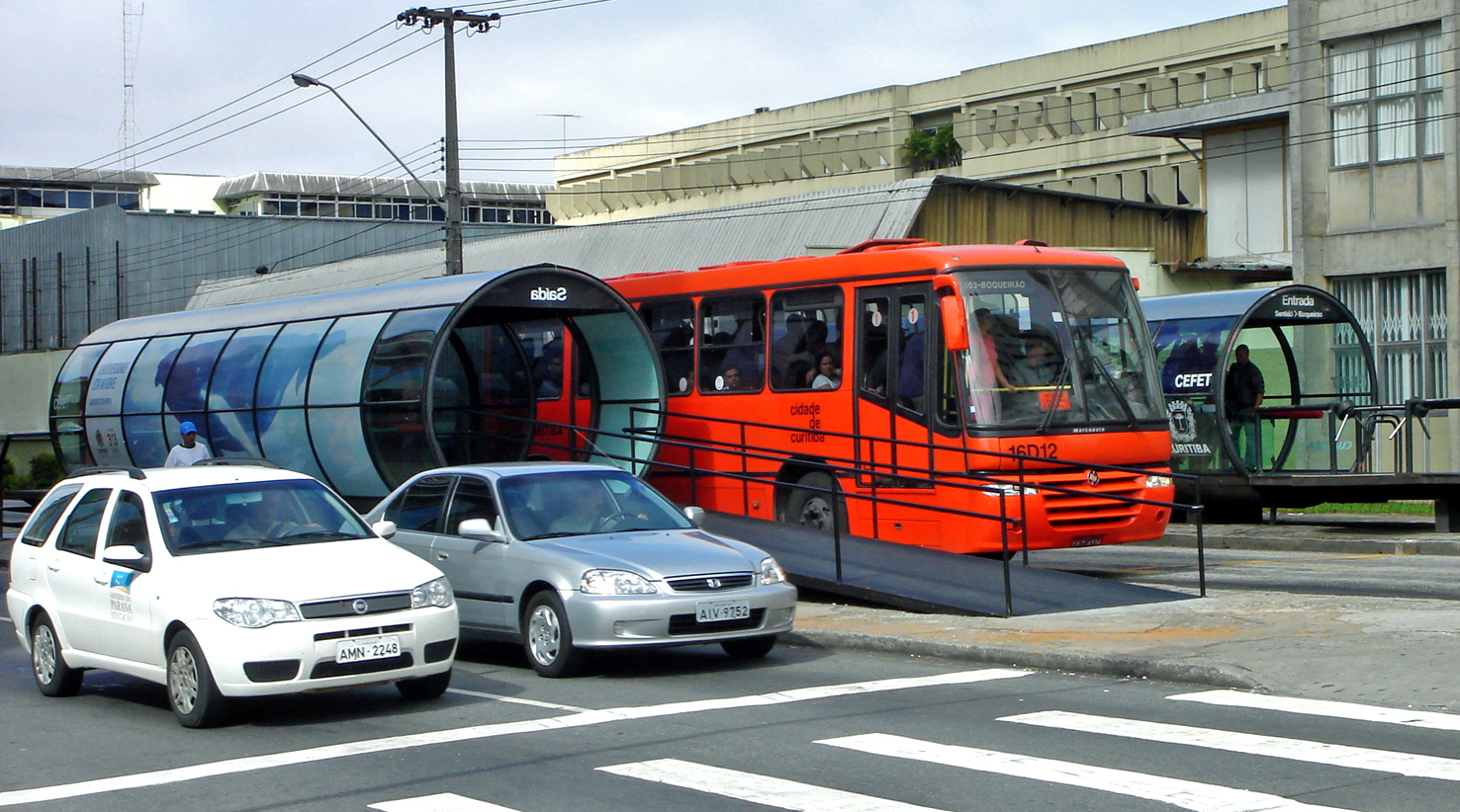 From left to right: Fiat Palio Weekend Mk3, Honda Civic and Marcopolo Torino Biarticulado bus (#16D12) with unknown chassis in Curitiba, Brazil.